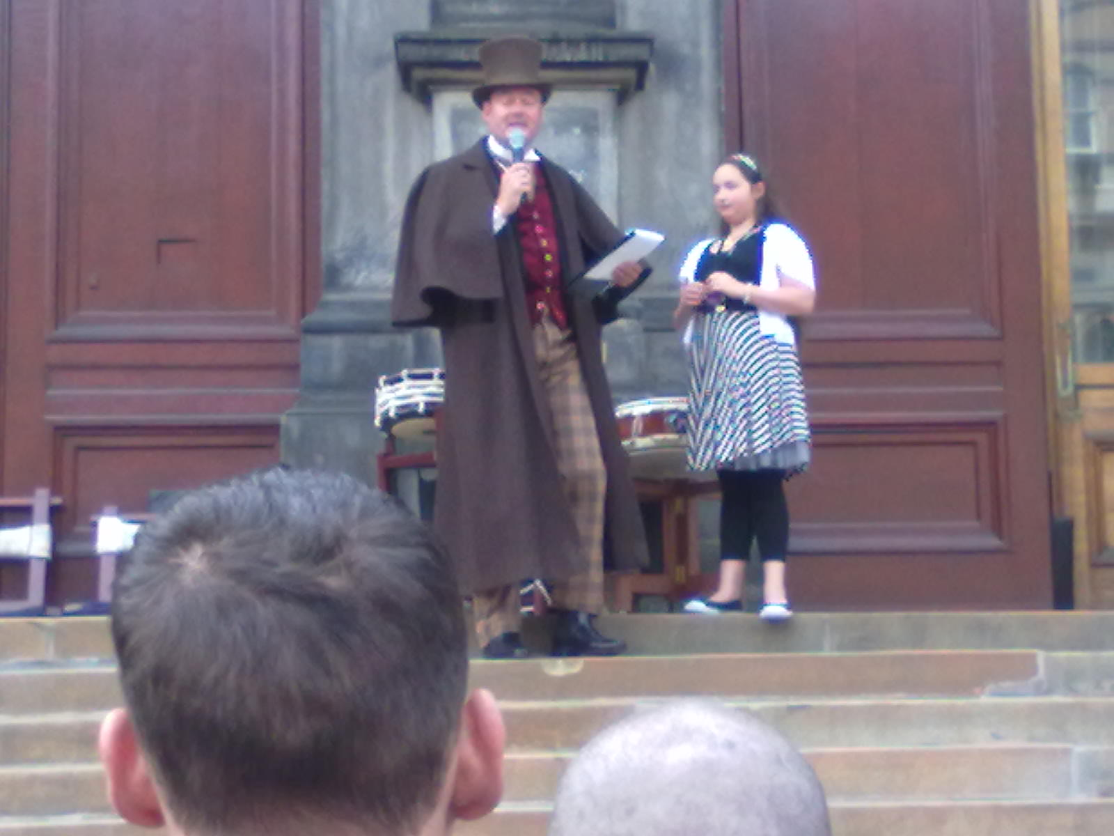 National Museum of Scotland Grant Stott and Bryony Hare reopening the museum on July 29, 2011.